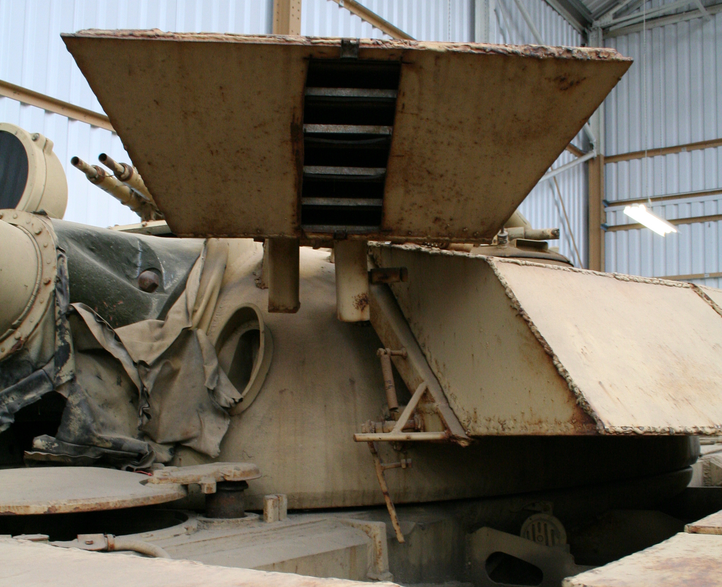 Laminate armour additions on an Iraqi T-55. One of the boxes mounted around the turret is here lifted, showing the internal layers through the cutaway. The laminate dissipates the force from a HEAT grenade impact.